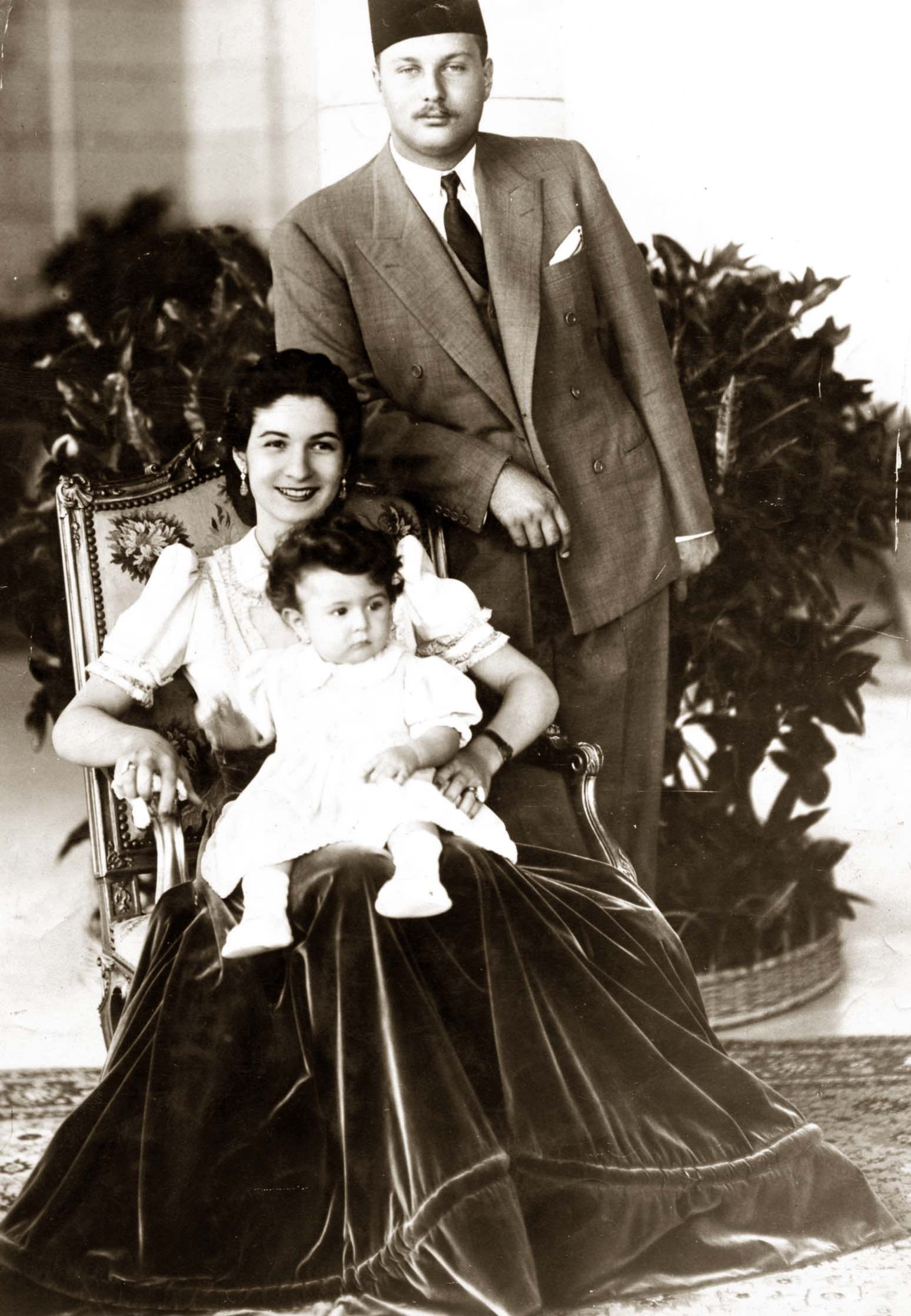 King Farouk I of Egypt with his wife Queen Farida and their daughter Princess Ferial.